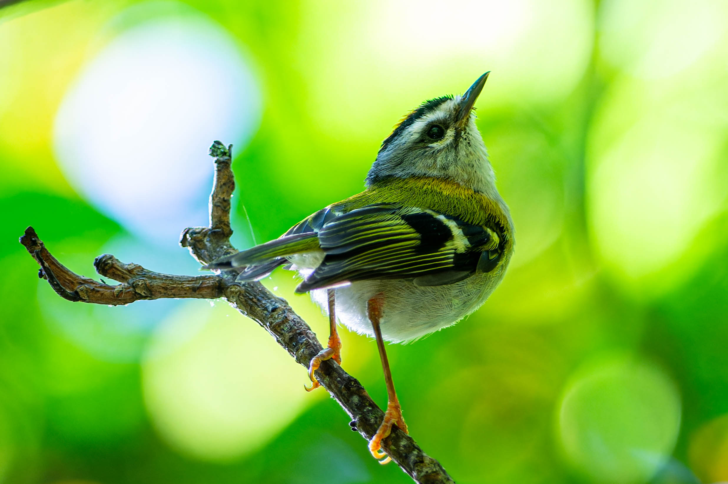 Madeira firecrest (Regulus madeirensis)